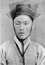 Korean